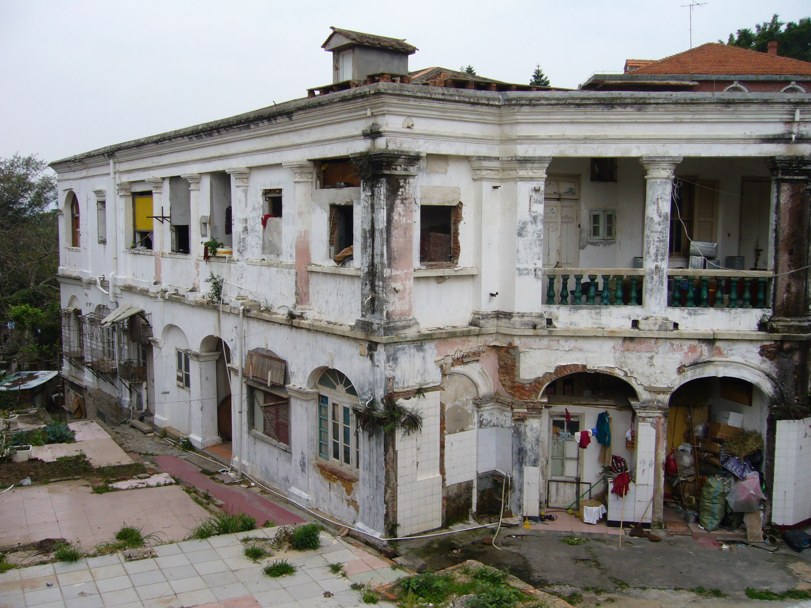 Gulangyu, parental home of dr Lin Qiao Zhi